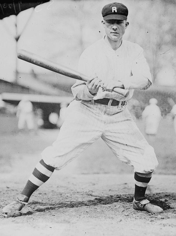 Tommy McMillan, former professional baseball player.